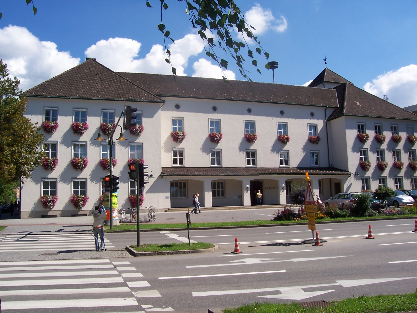 City hall of Dornbirn. / Rathaus von Dornbirn.